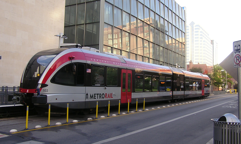 Austin Metrorail at Downtown Station, July 2010